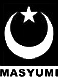 The logo of the defunct Indoensan political party Masyumi